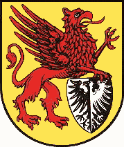 Coat of Arms of Niederorschel